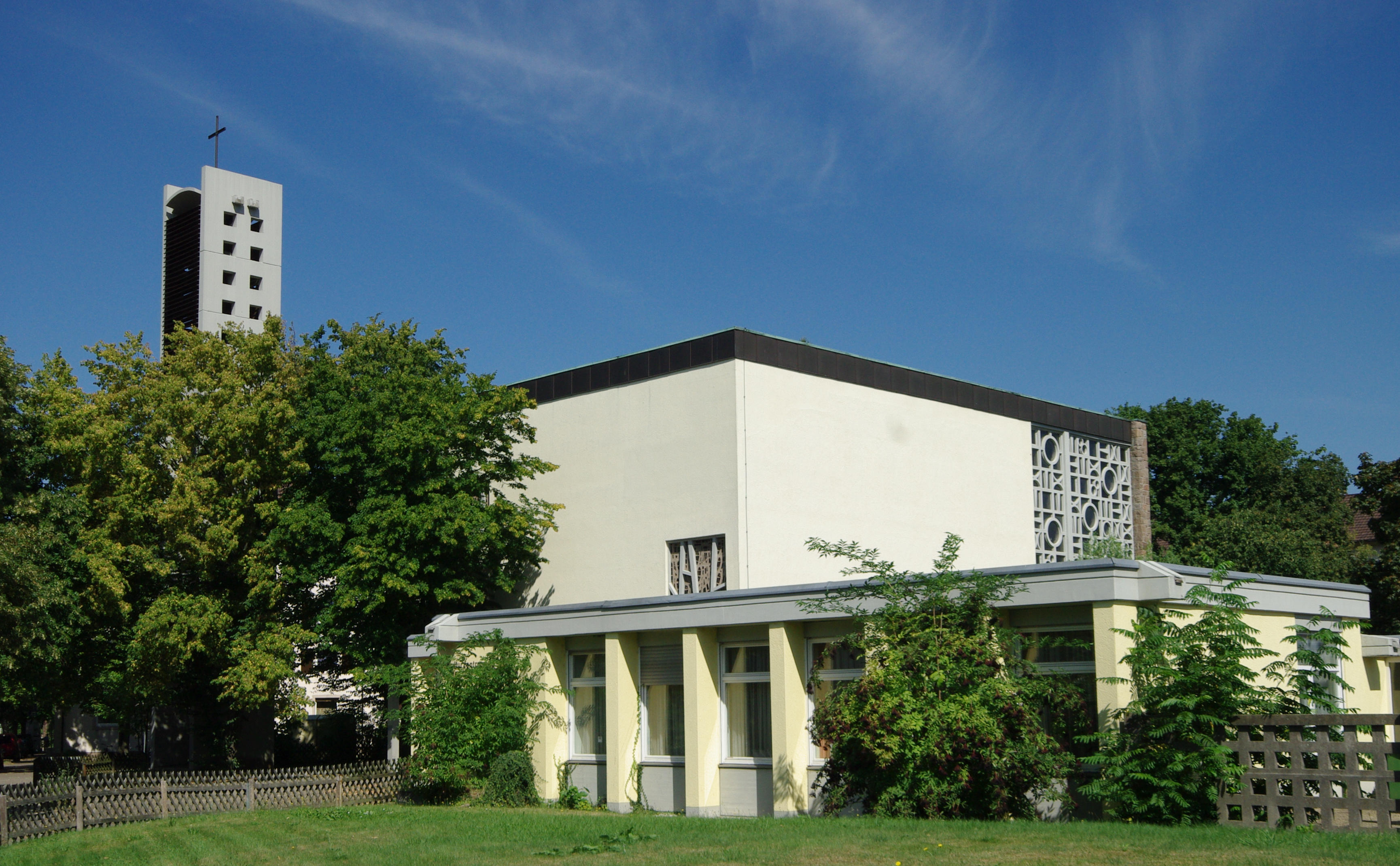 Thomaskirche